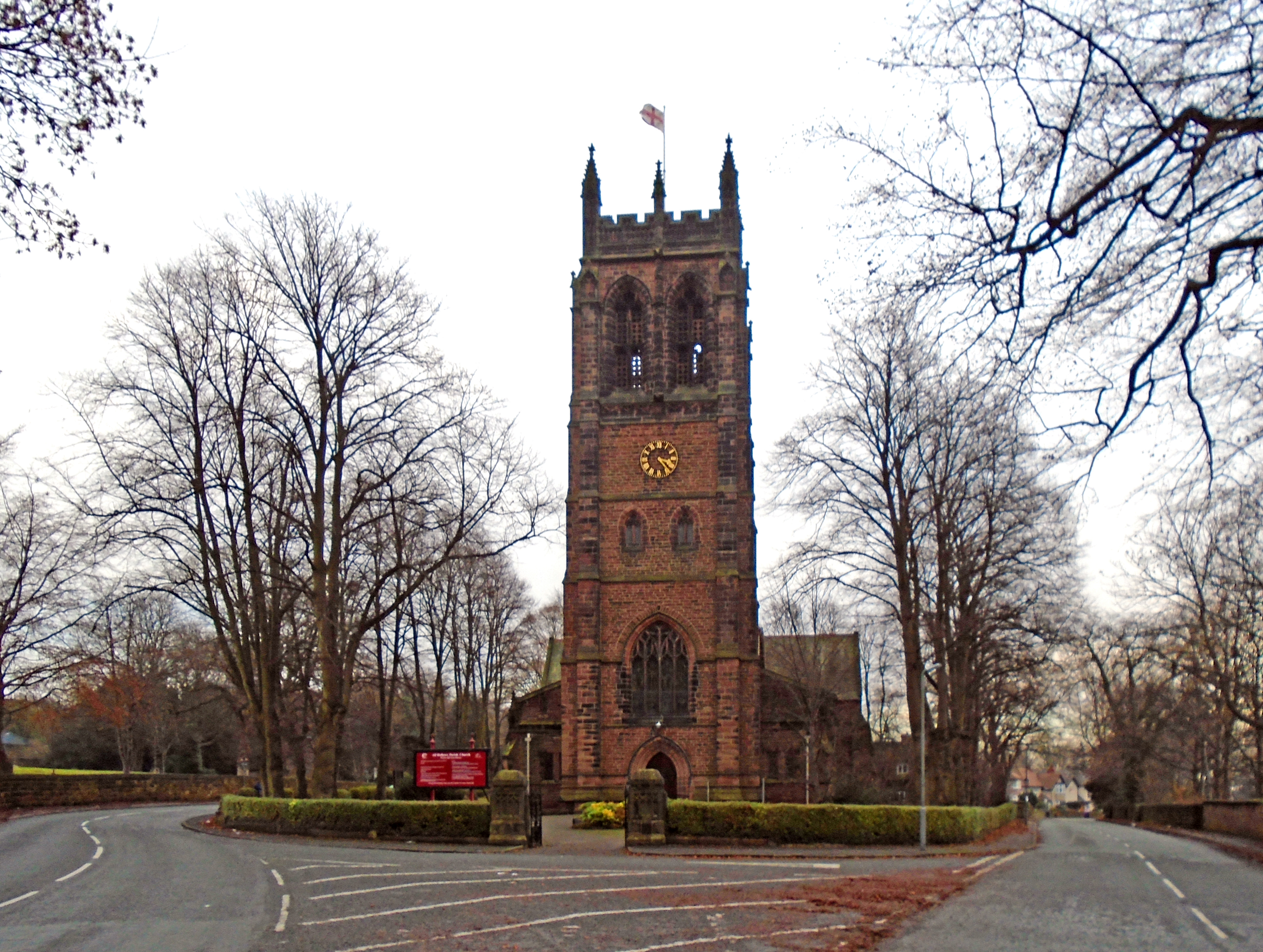 View of the tower from Allerton Road